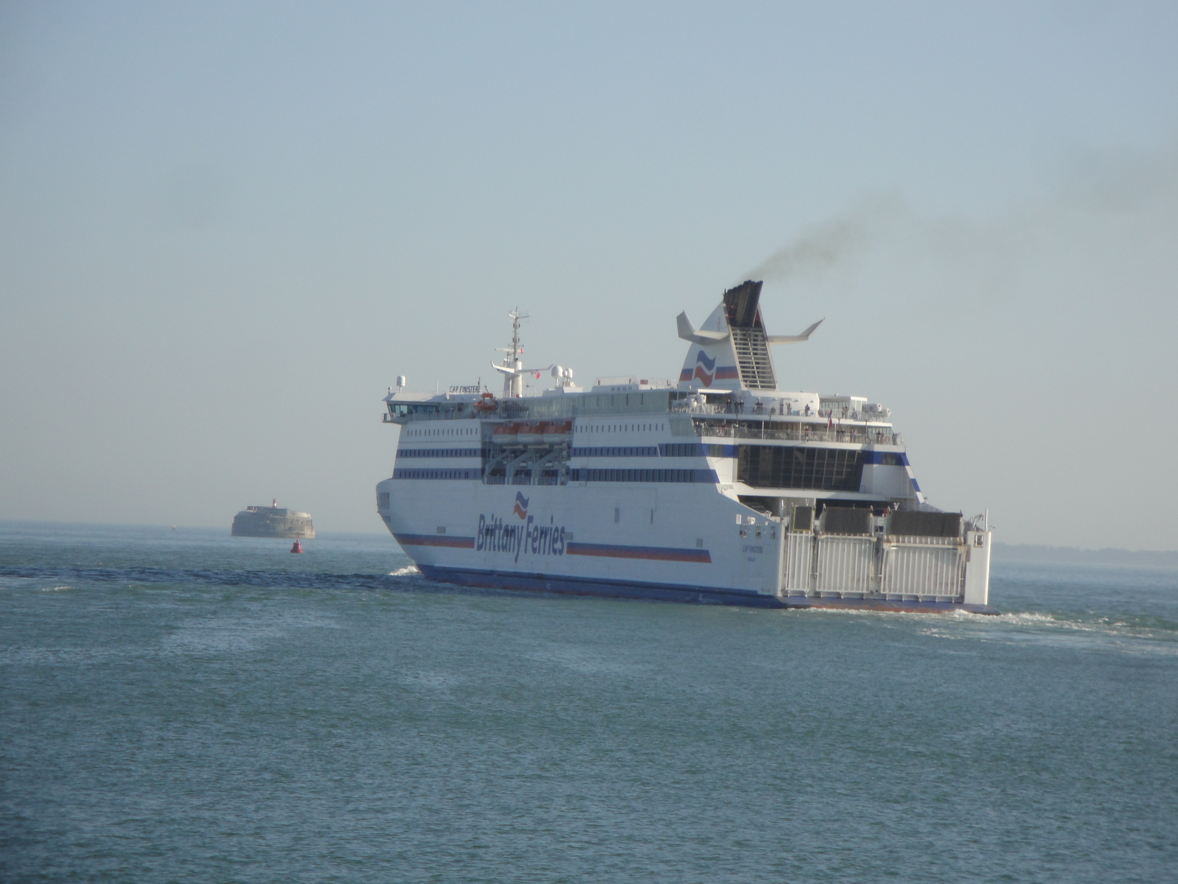 Brittany Ferries Cap Finistere, leaving Portsmouth Harbour, Portsmouth, Hampshire.